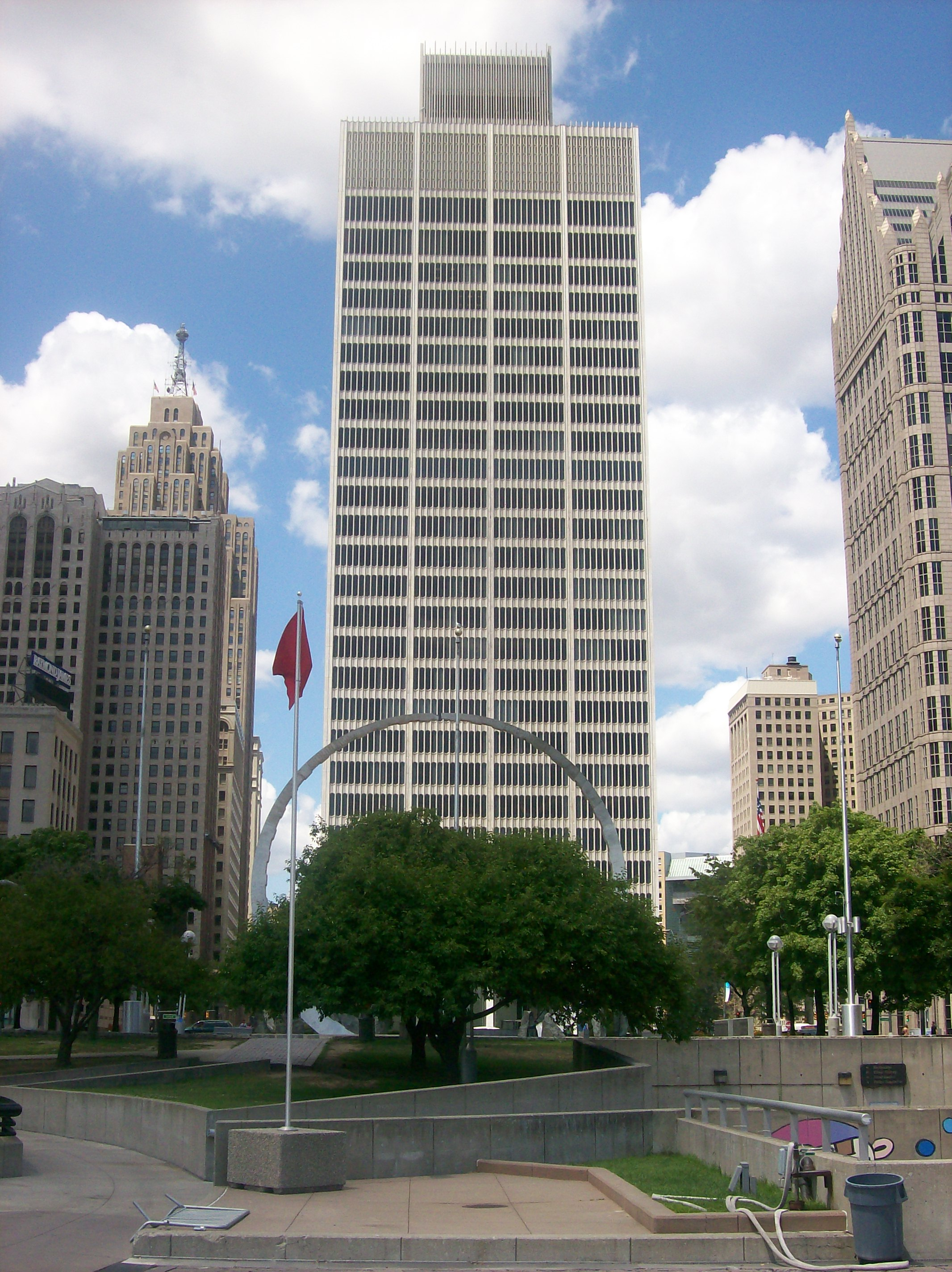 Kyle Lang, 2007, free to all